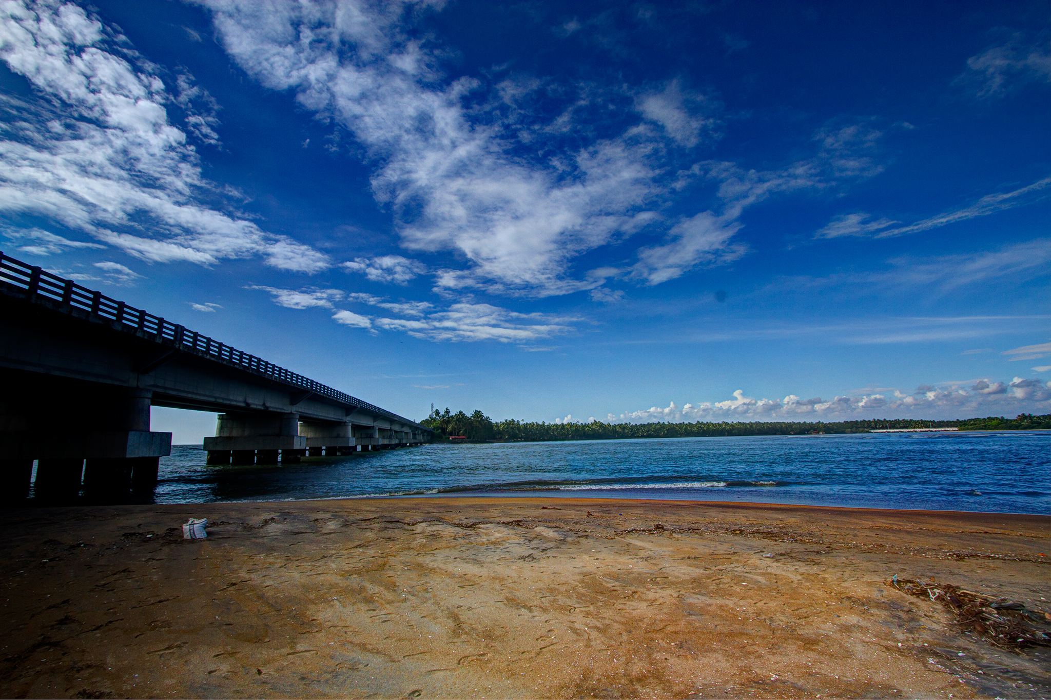 Shot from Kadalundi Bridge, India. Sky was really beautiful and blue that day. I couldn't capture the scene exactly the way I saw it, but I think this is close.